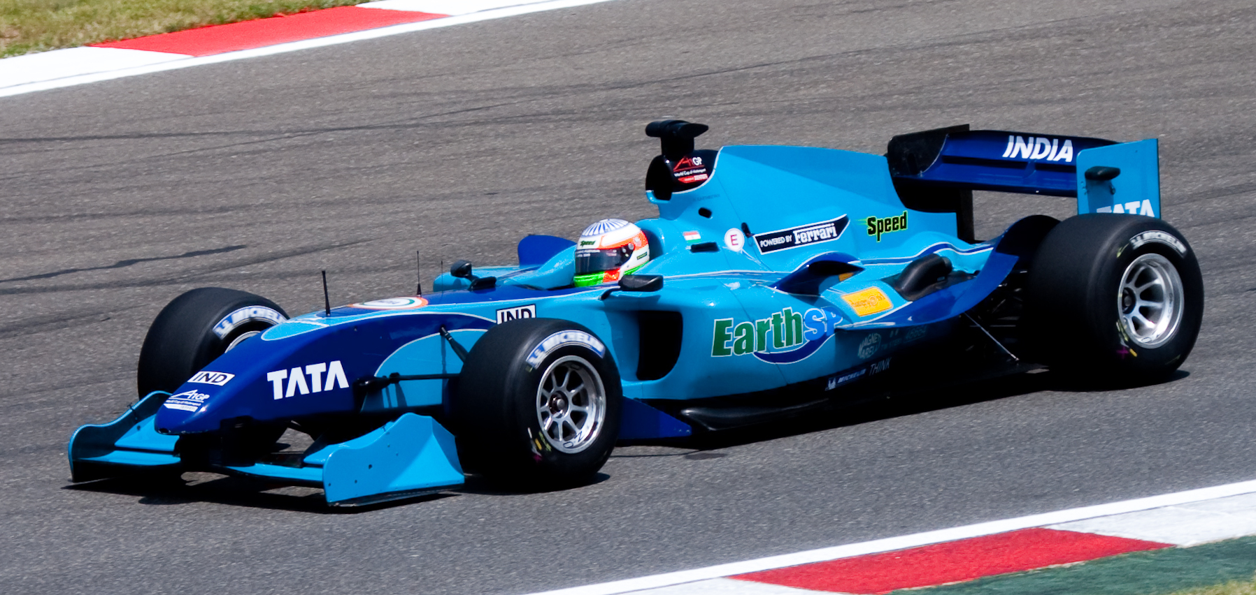 Team India @ A1 Grand Prix Kyalami South Africa 2009